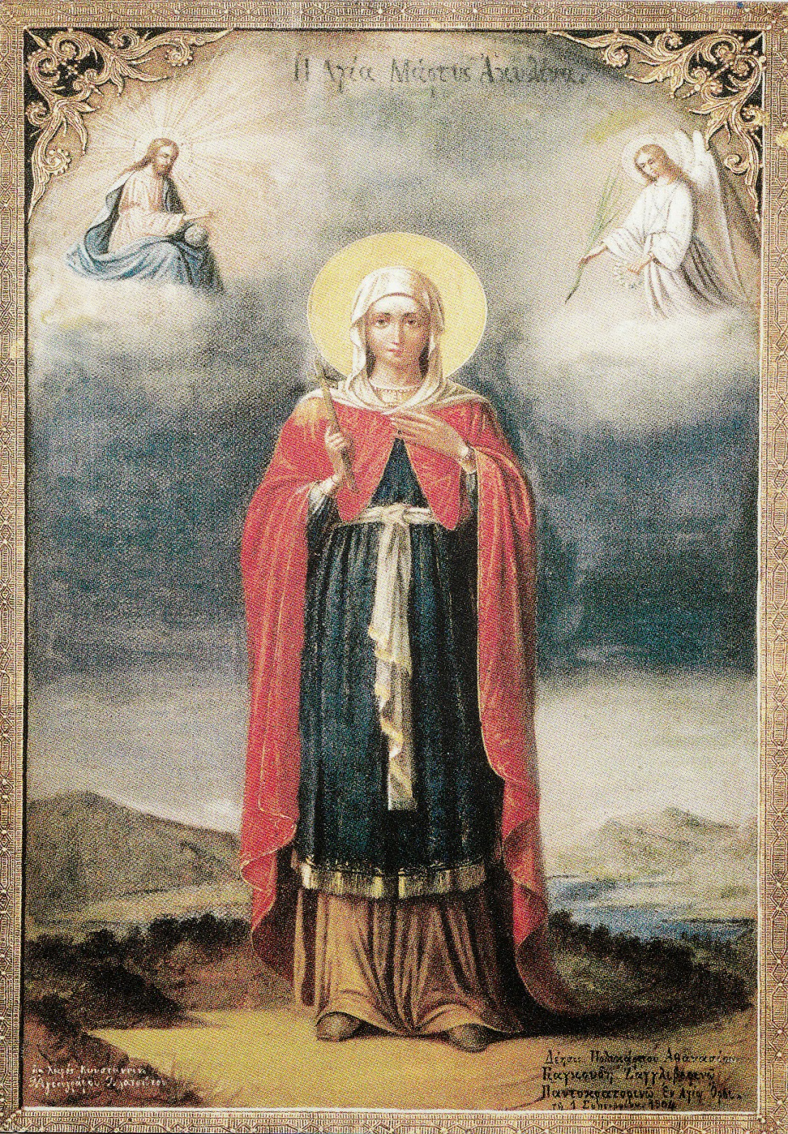 Saint Akilina Icon